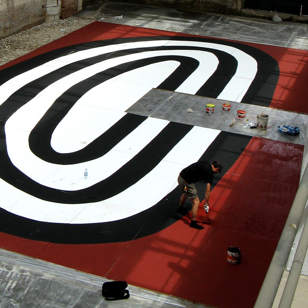 108 (artist) working at the biennale di venezia (2007)